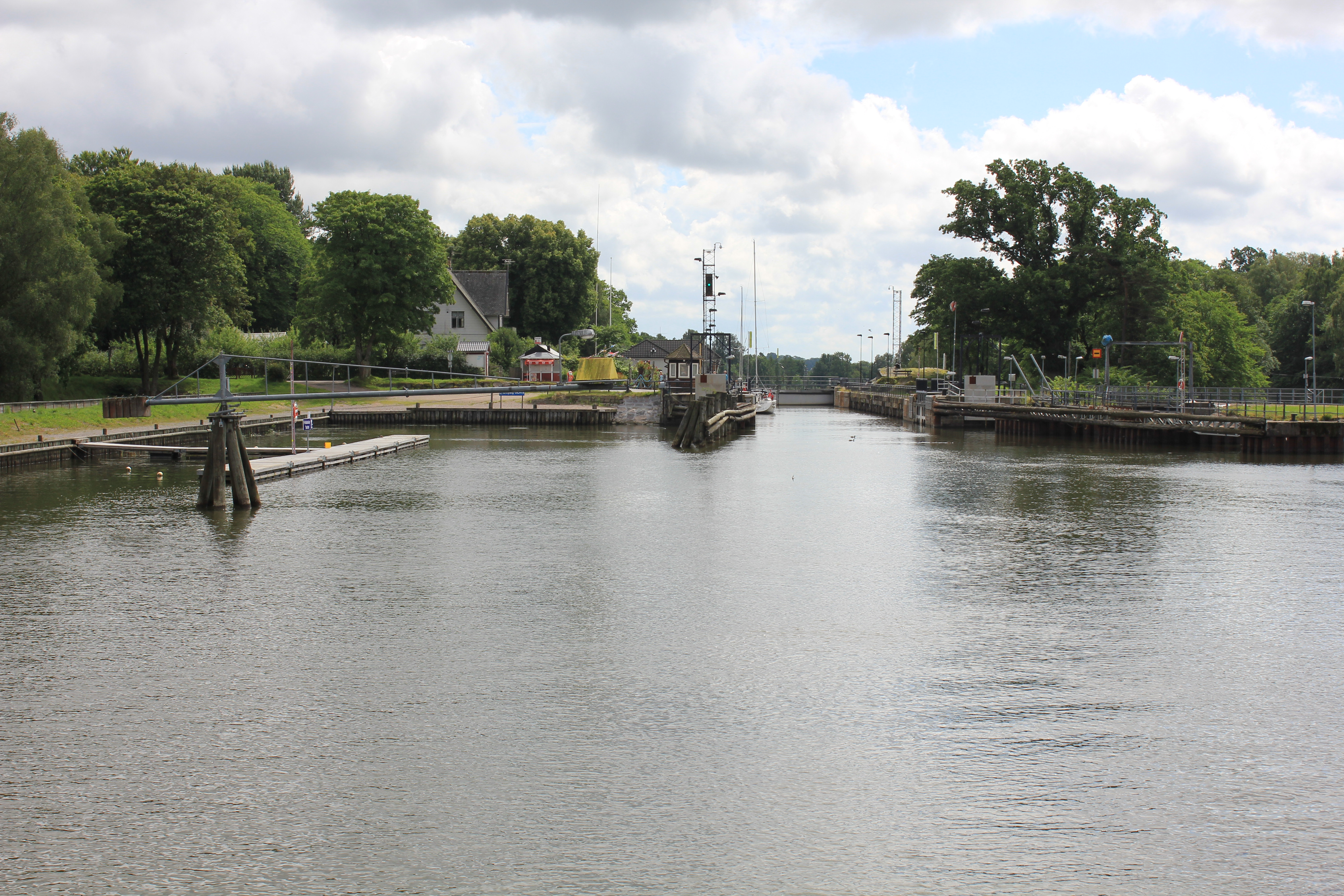 The lock at Brinkebergskulle in the channel Göta Kanal, Sweden.